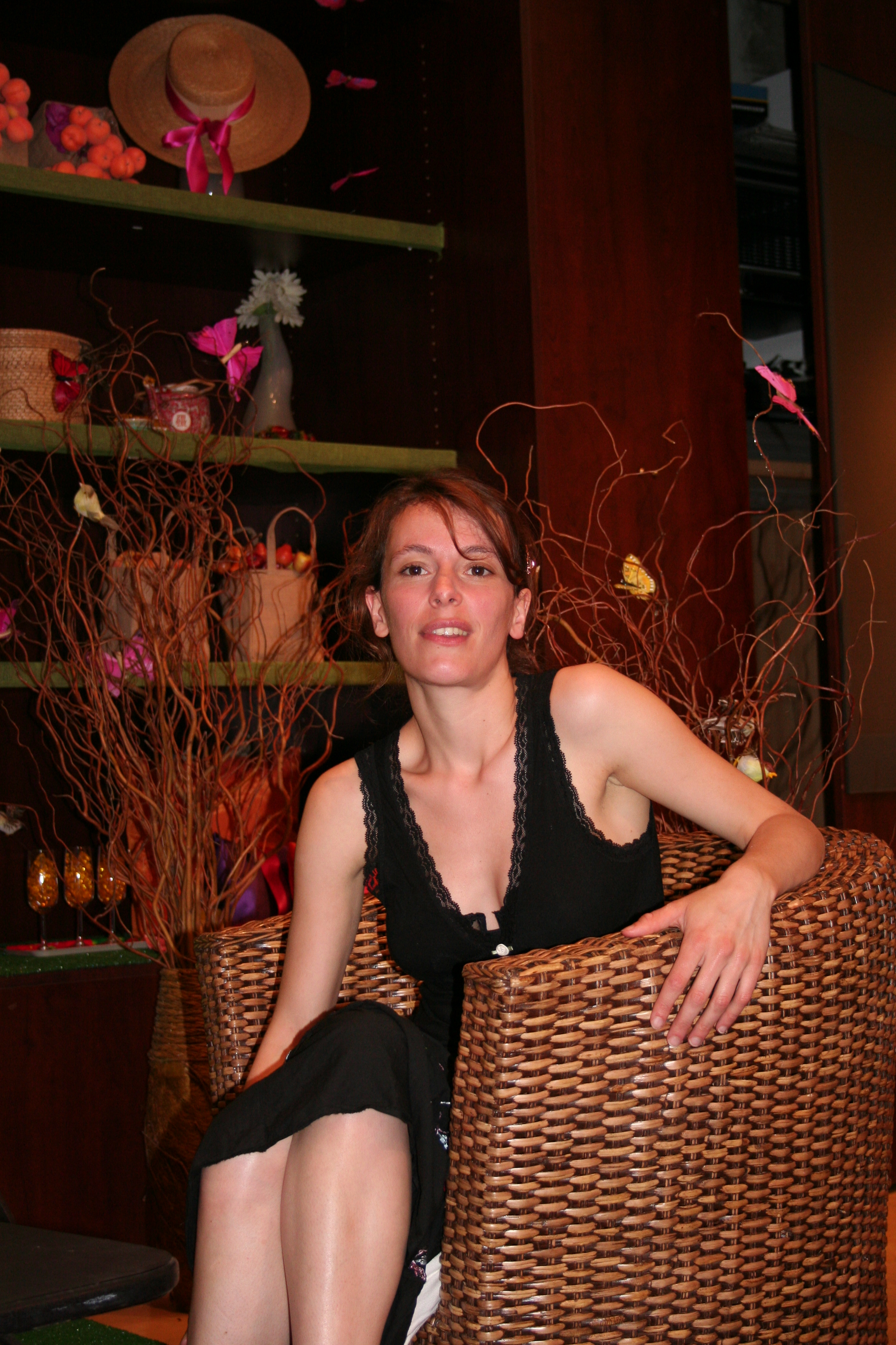 Show-case with Emily Loizeau at Fnac Italie (Paris, France).